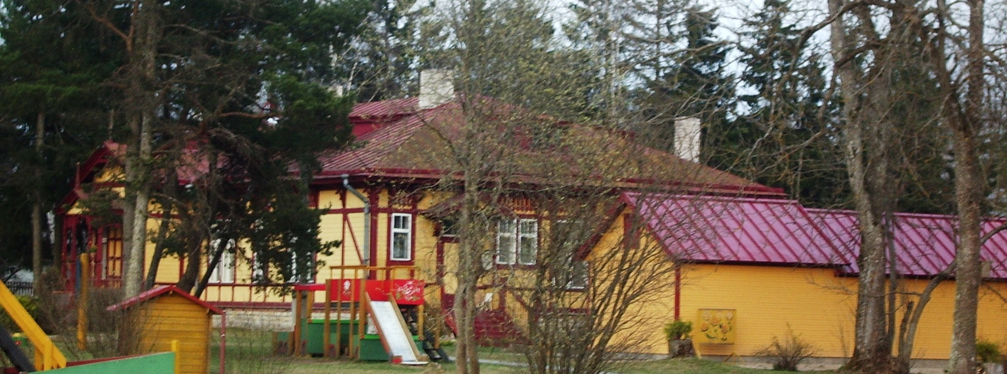 a kindergarten in Tallinn